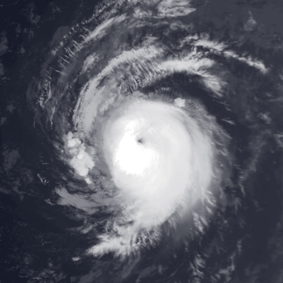 Hurricane Danielle (04L) near peak intensity on August 16, 2004.